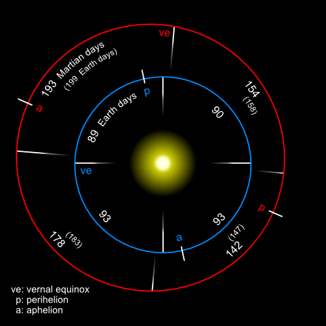 Orbits of Mars and Earth seen from the north. Also shows lengths of seasons, equinoxes, solstices, perihelion and aphelion. References